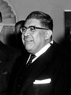 President John F. Kennedy meets with Mexico-United States Interparliamentary Group in Oval Office, White House, Washington, D.C. The group presented the President with a silver tray from the Governor of the state of Jalisco, Mexico Juan Gil Preciado (who was not present at the meeting). (L-R) Senator Clair Engle of California; unidentified; President Kennedy; Vice President Lyndon B. Johnson; Ambassador of Mexico Antonio Carrillo Flores; Senator Albert Gore, Sr. of Tennessee; Senator Mike Mansfield of Montana; Congressman D.S. Saund of California.